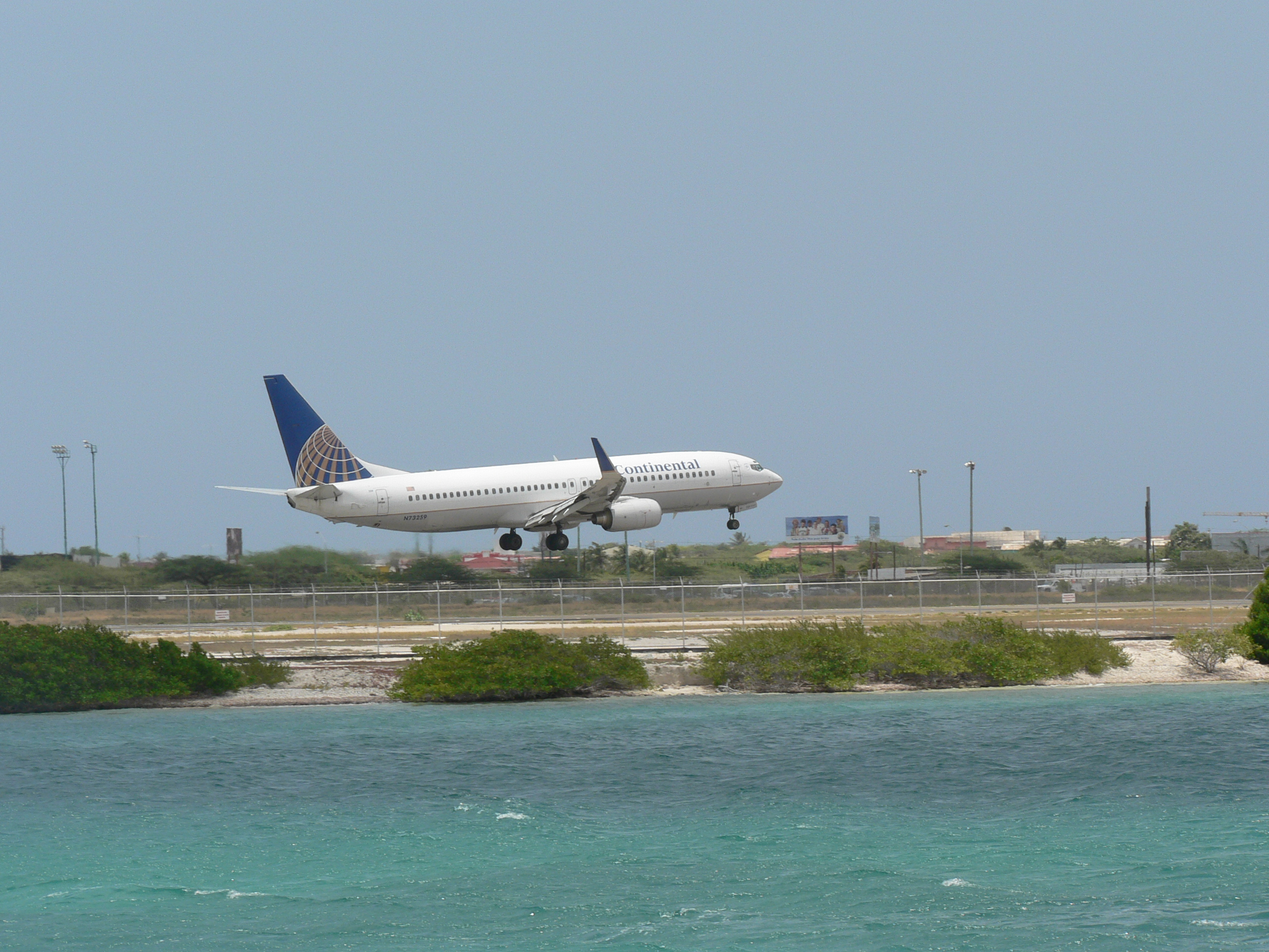 Queen Beatrix International Airport. A Continental Airlines Boeing 737-800 (N73259) landing